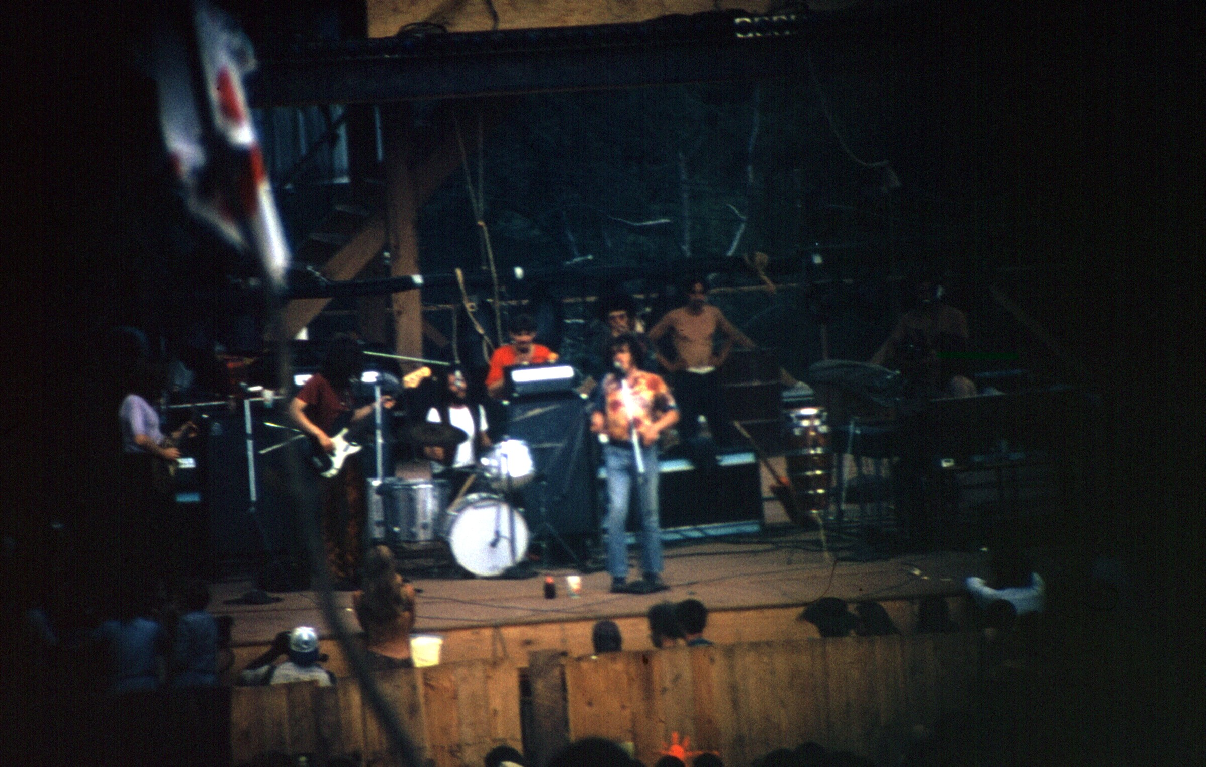 Joe Cocker opened Sunday's line up. He was only a little more known than Santana, but like Santana his performance gave his career a huge boost.